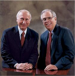 Analog Devices' Notable Employees